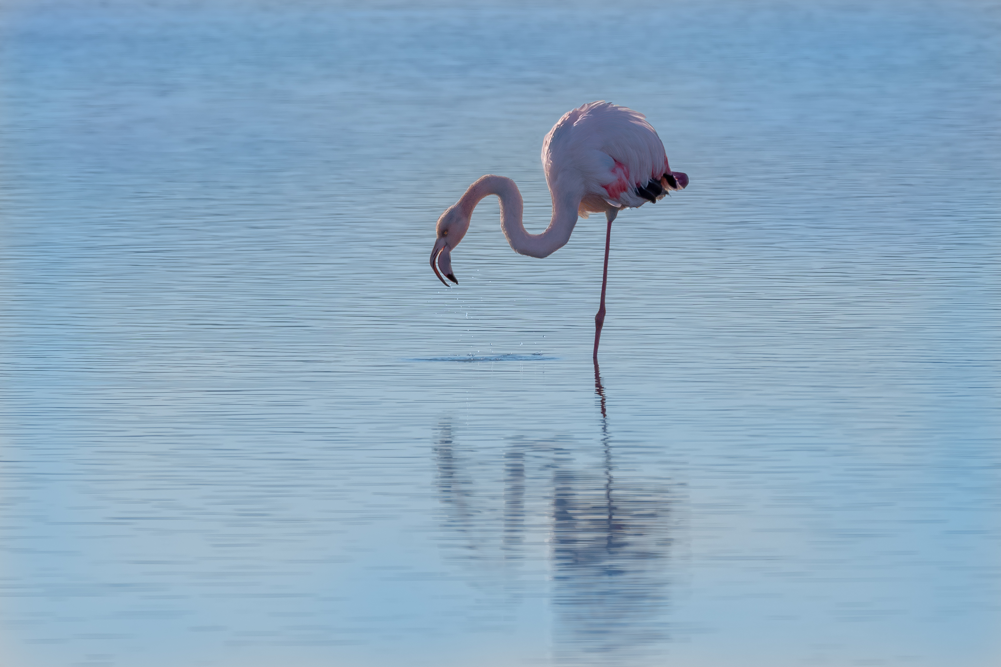 Greater flamingo (Phoenicopterus roseus) in Riserva Naturale della Valle Cavanata / Friuli-Venezia Giulia / Italy